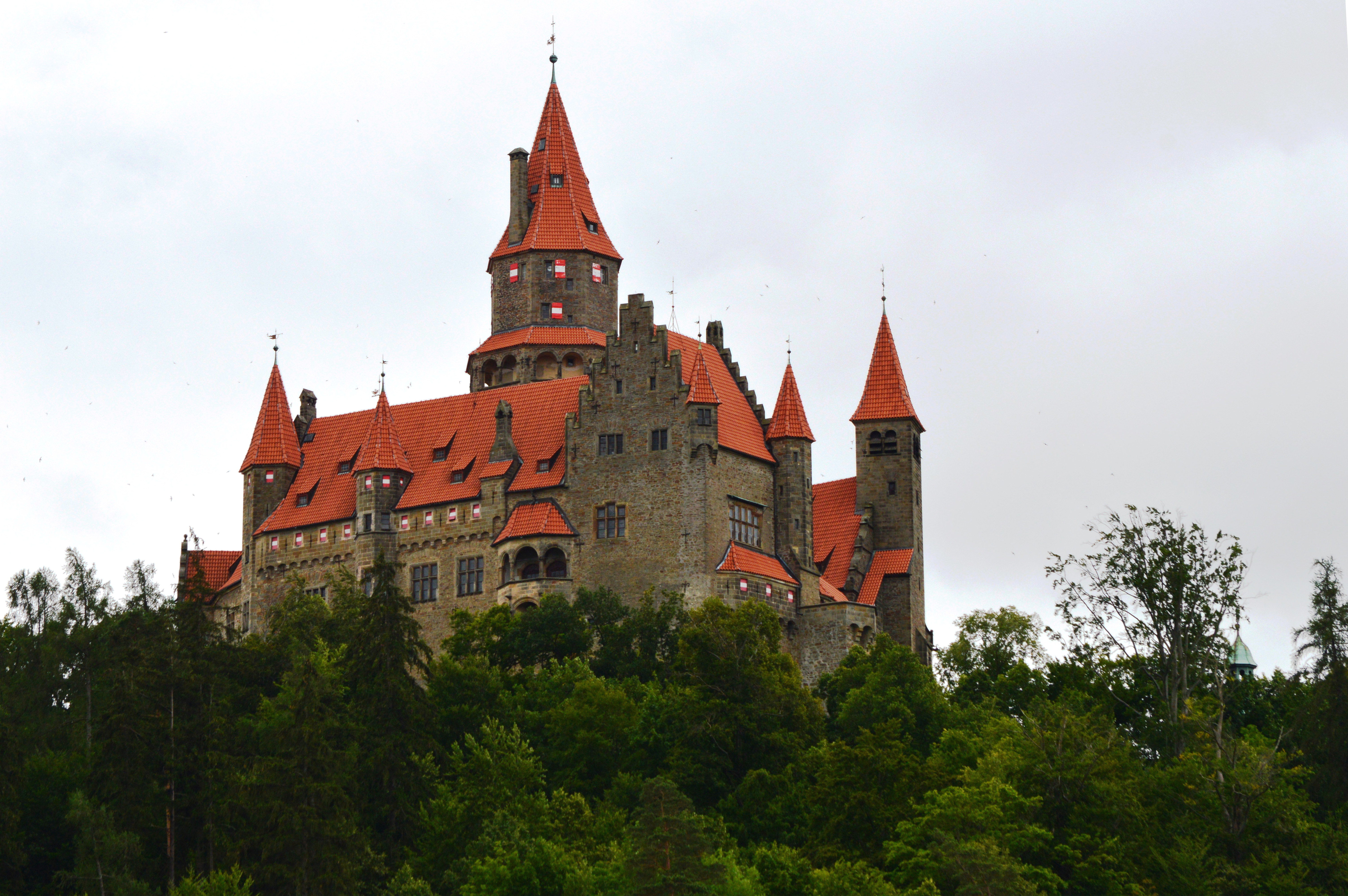 Bouzov Castle (Hrad Bouzov) is an early fourteenth century fortress first mentioned in 1317. It was built on a hill between the village of Hvozdek and the town of Bouzov, 21 km west of Litovel and 28 km northwest of Olomouc, in Moravia. The castle was established to watch over the trade route from Olomouc to Loštice. The minor aristocratic Bůz of Bludovec family were its first recorded owners from 1317-1339 and the castle also takes its name from the family. Ownership of the castle then changed, and the Lords of Kunštát were among the most important medieval owners. According to tradition, Bouzov Castle is often connected with the name of the most famous member of this noble dynasty, Jiří z Poděbrady, who was born in Bouzov in 1420 and was crowned Czech King in 1458. In 1558 the castle burned down, and lost much of its majestic quality. In the course of centuries there were several changes of proprietors; the castle was owned by the lords of Vildenberk, margrave Jošt, the Haugvic and the Pod Štatský families, and in 1696 the barony was bought by the grand master of the Teutonic Order, the Rhenish palsgrave Fanciscus Ludovicus. The castle gained today's appearance after massive Neo-gothic reconstruction between 1895 and 1910. The Grand Master of the Order of the Teutonic Knights from 1799 to 1939, archduke Eugen Habsburg, decided to rebuilt it in the Romantic, predominantly Neo-Gothic style, according to the plans of the prominent architect of the time Georg von Hauberisser (1841–1922). The Scotch Mist Gallery contains many photographs of historic buildings, monuments and memorials of Poland and beyond.